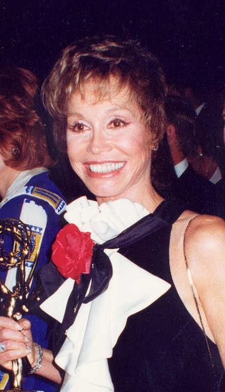 Mary Tyler Moore at the 45th Emmy Awards 9/19/93- Governor's Ball.